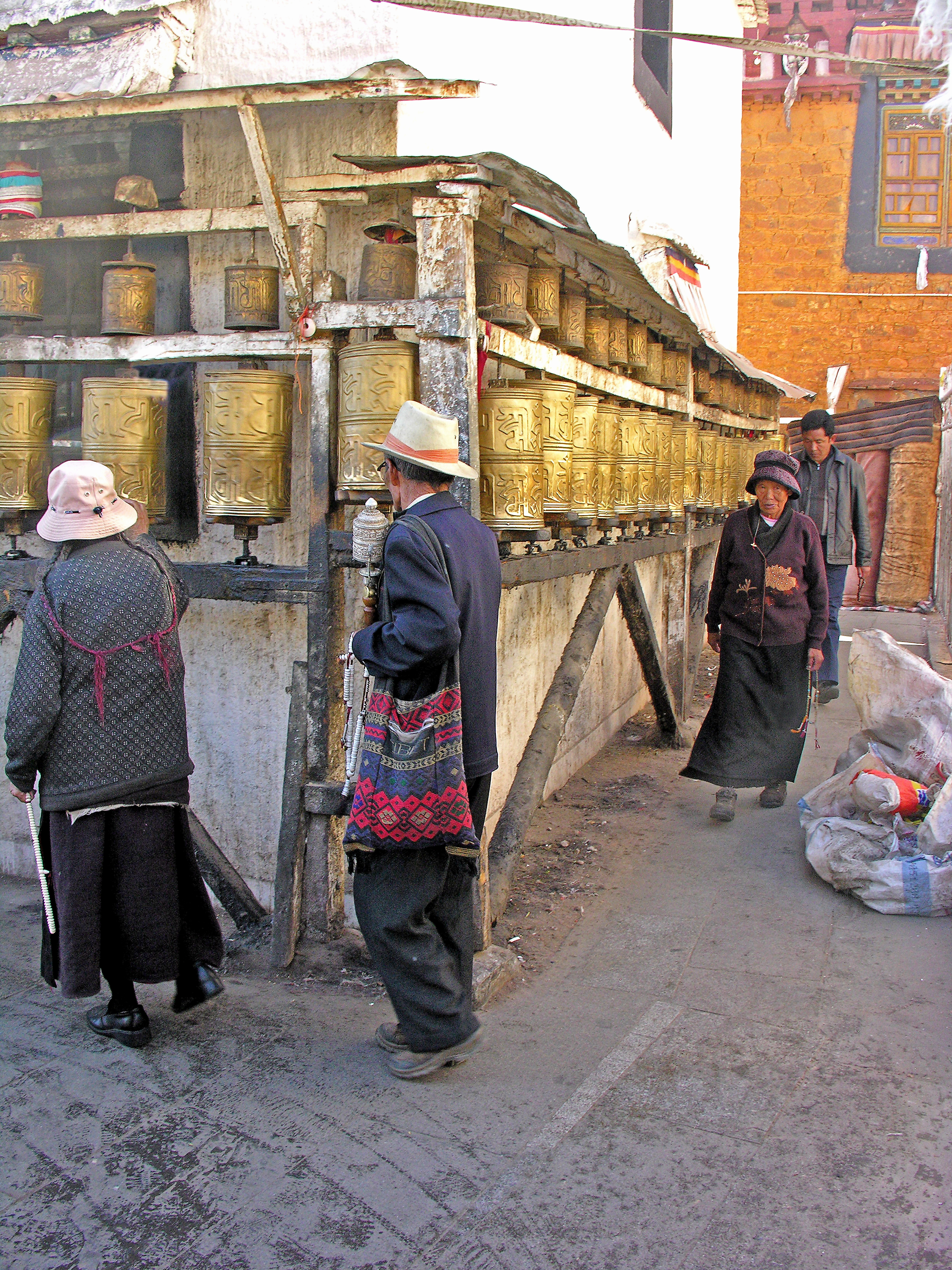 After leaving the monastery we walked around the monastery, in a clockwise direction. Tibetan Prayer wheels (Mani) are for spreading spiritual blessings and well being. Rolls of thin paper, imprinted with many, copies of the mantra Om Mani Padme Hum, are inside the wheel, and spun clockwise. Lhasa, Tibet